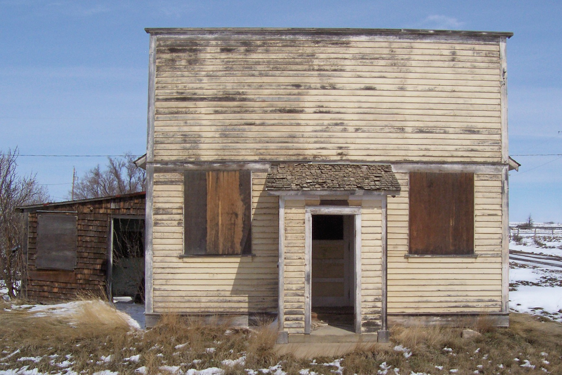 A ramshackle structure that once operated as a convenience store in Orion, Alberta.